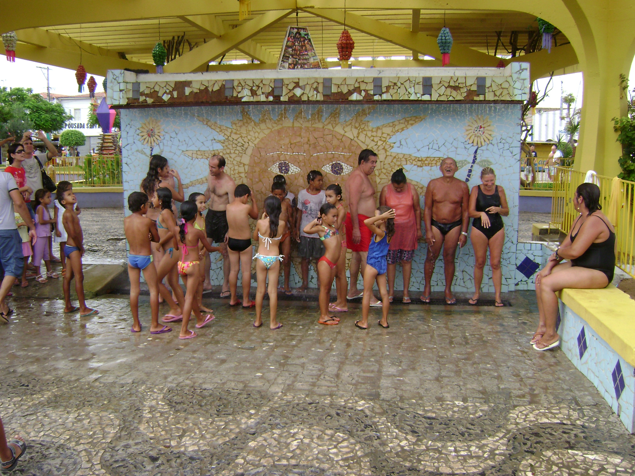 Fonte de águas termais em Caldas do Jorro, município de Tucano, Bahia, Brasil.